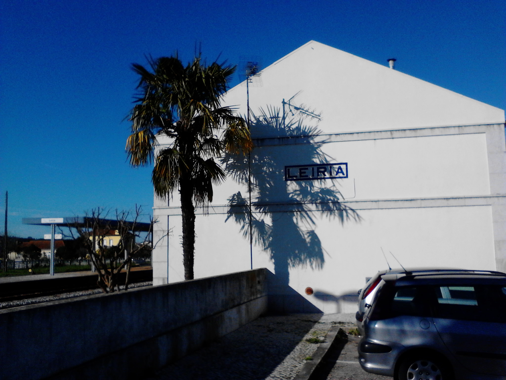 Leiria inscribed in tiles in the side of the building